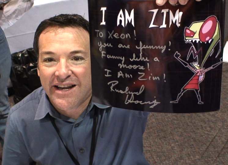 Richard Horvitz with autographed Invader Zim picture at JACON 2009 in Orlando, Florida.